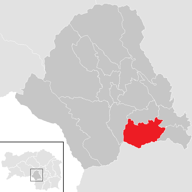 district Voitsberg